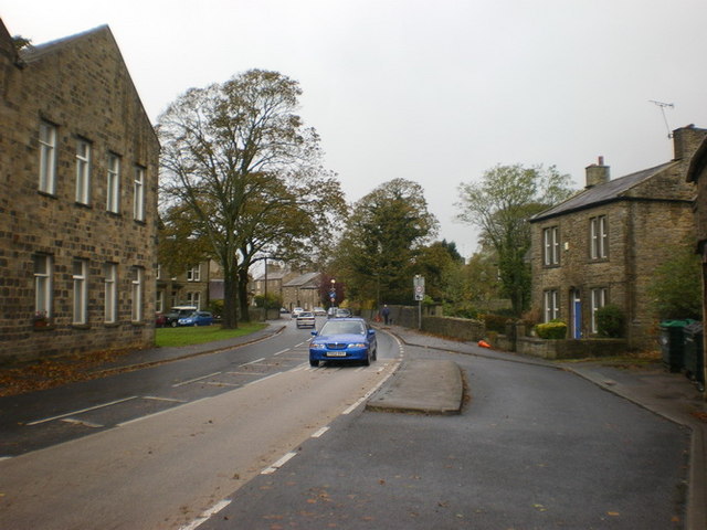 A65, Long Preston